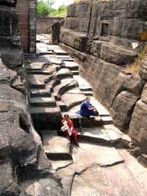 View of the central passage at Udayagiri, Madhya Pradesh, India